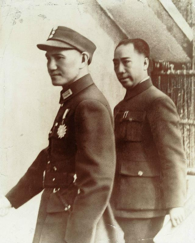 蒋介石和戴笠 Chiang Kai-shek and Dai L